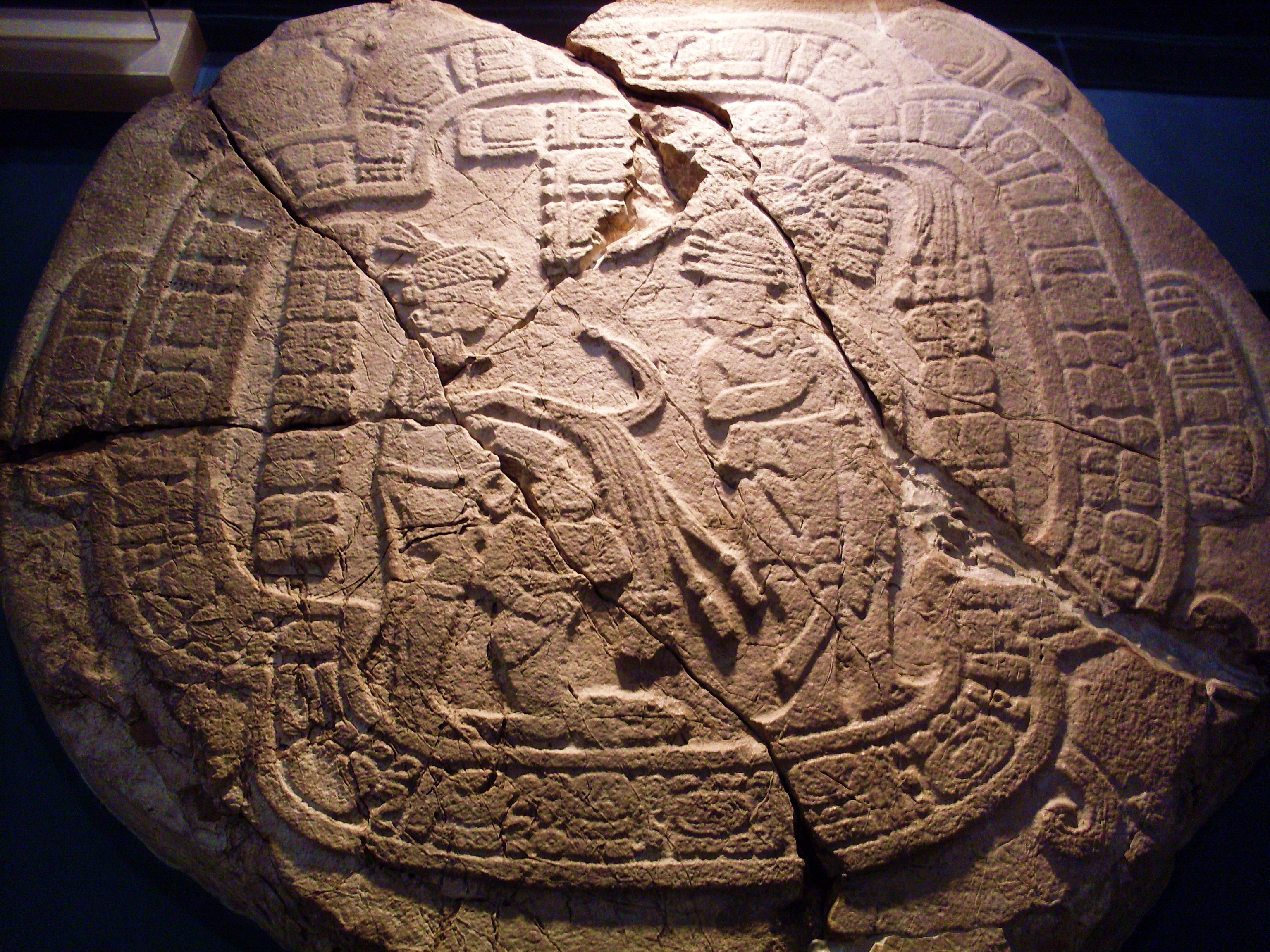 Altar 13 from the Mayan excavations at Caracol. AD 830.Exhibit of the Mesoamerican Gallery at the University of Pennsylvania's Museum of Archeology and Anthropology. The Altar 13 is part of the collections of Prof. Linton Satterthwaite from Caracol, Belize, undertaken in 1951-53. It probably shows a ceremony of a ruler’s accession to the throne. The four-sided figure that the figures stand inside most likely indicates a cave or some other symbolic portal to the Other World.